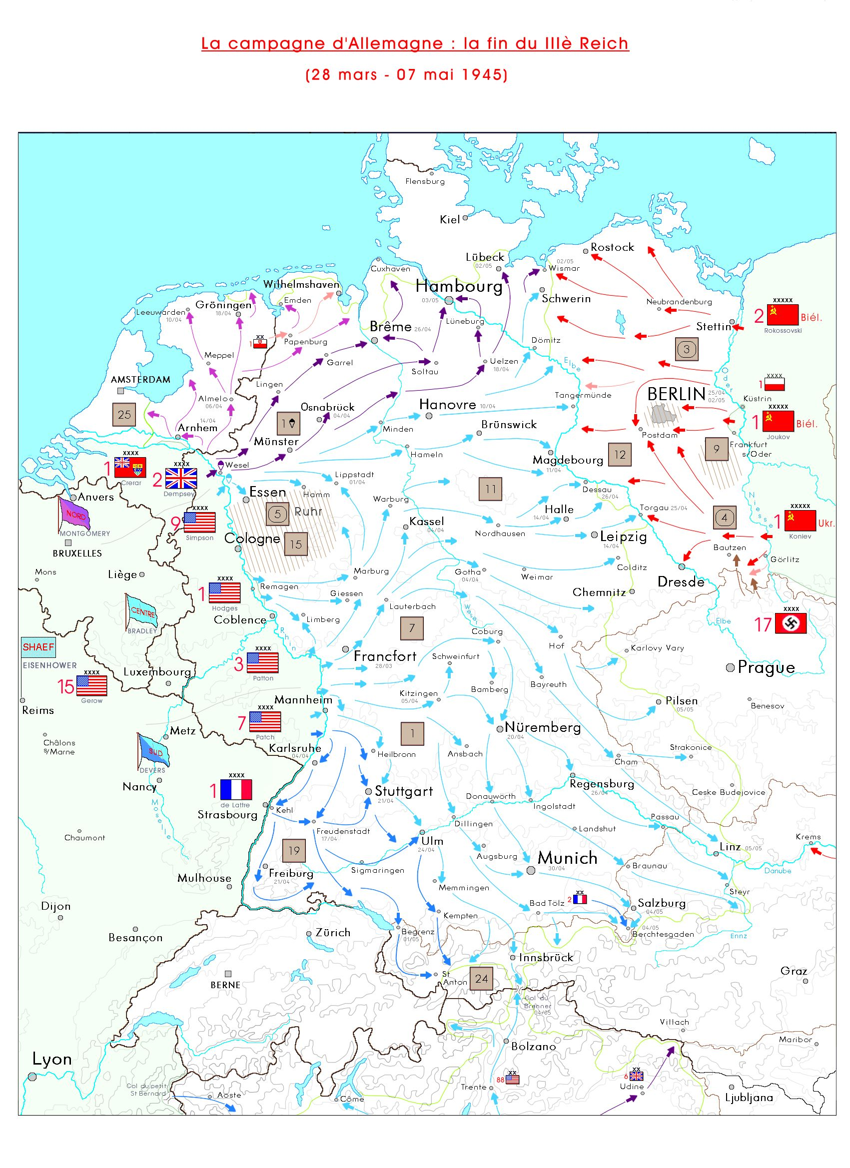 The IIIrd Reich's end : the allied invasion of Germany, april-may 1945